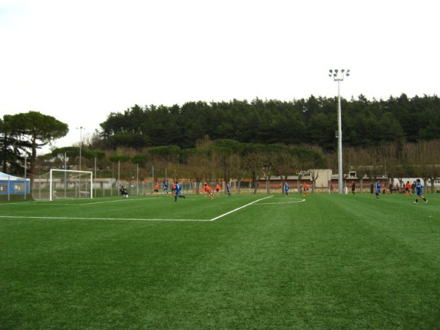 Centro Sportivo "Giulio Onesti" in Rome.